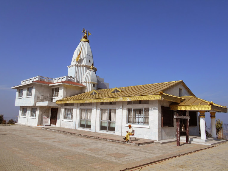 पाइलट बाबा आश्राम